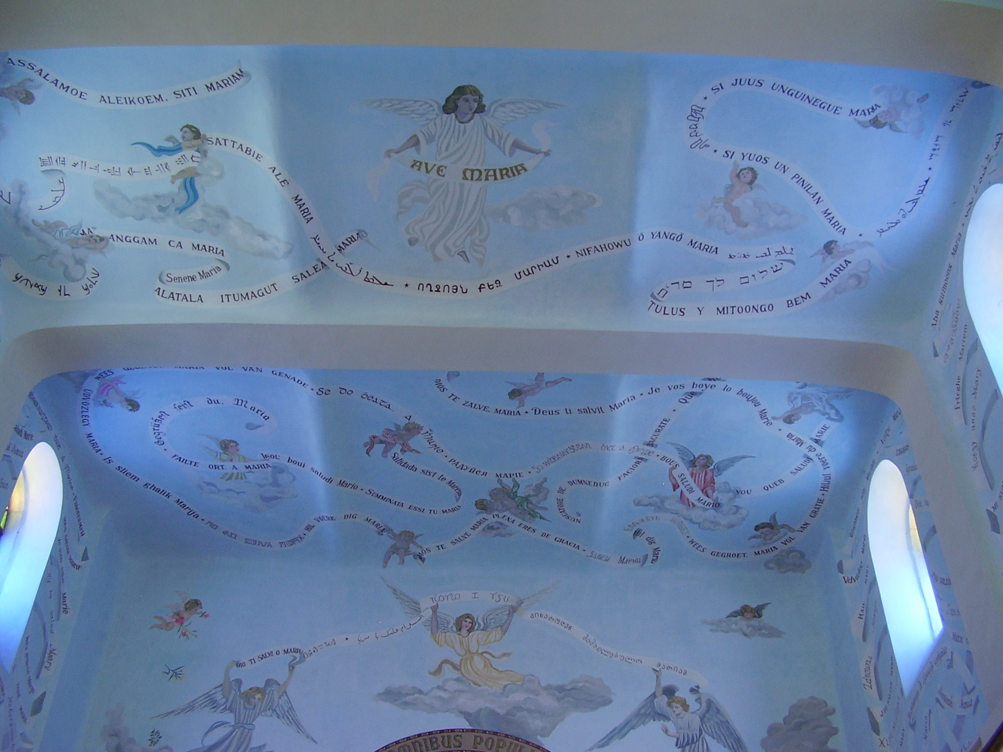 deir rafat monastery-ave maria in differnt languages